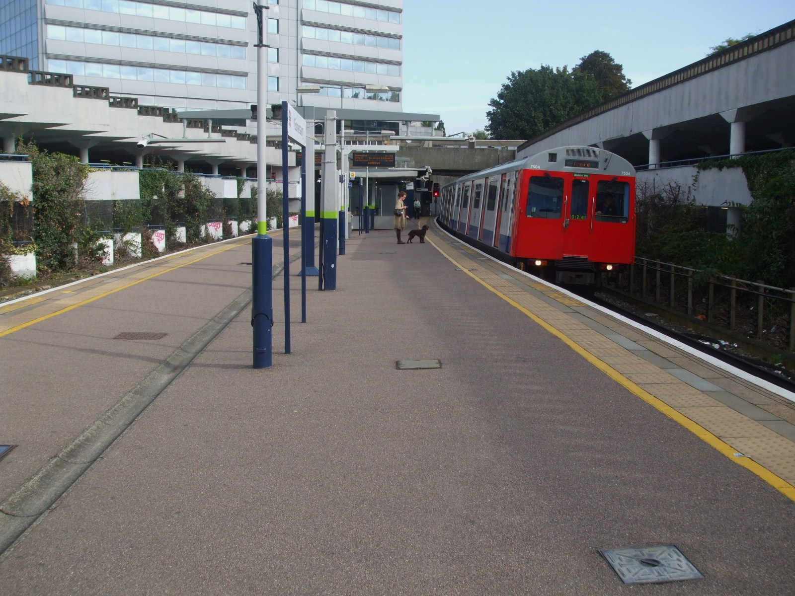 District line D Stock train calls at Gunnersbury station with a Richmond service